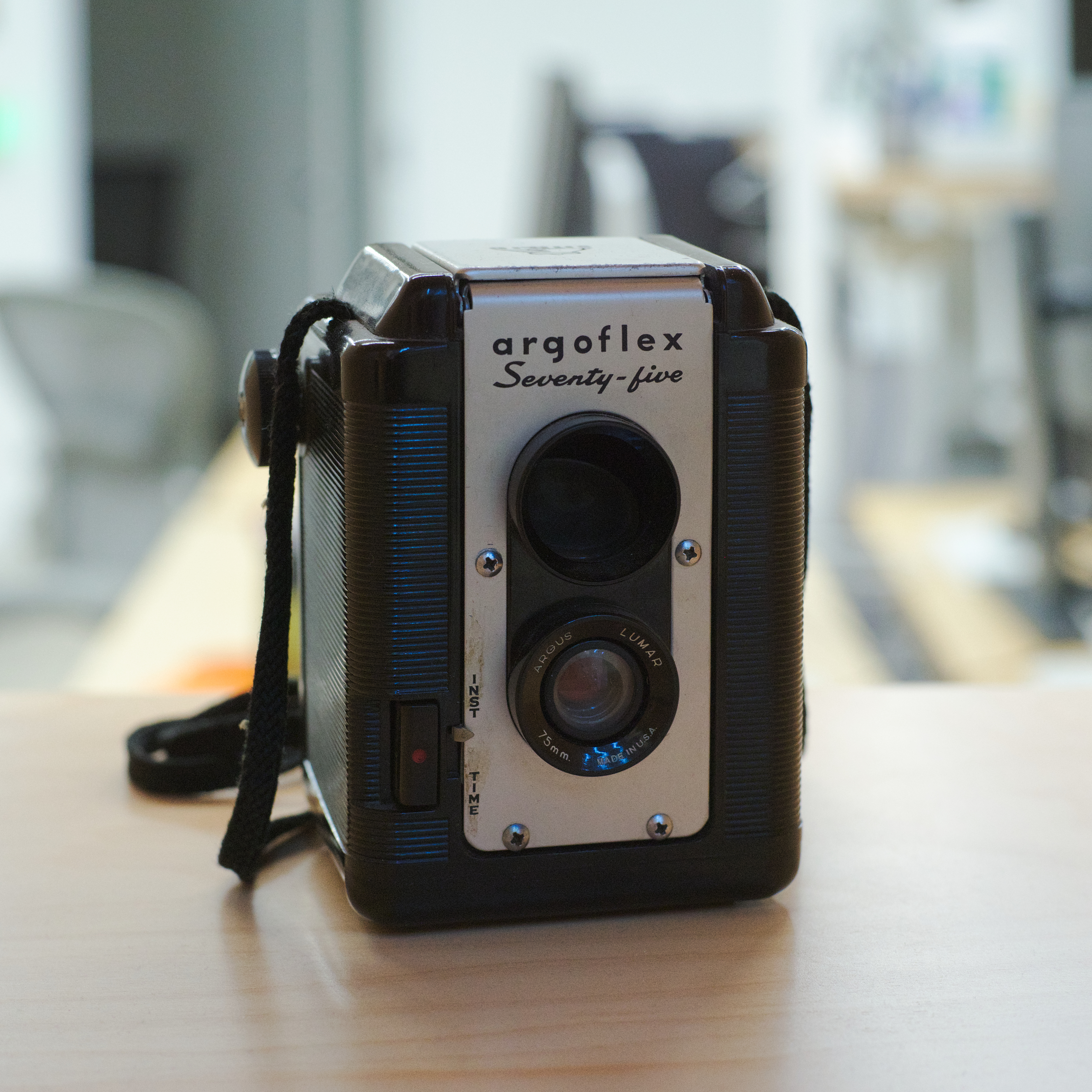 The Argoflex Seventy Five is a camera produced by the Argus company from 1949 to 1958.